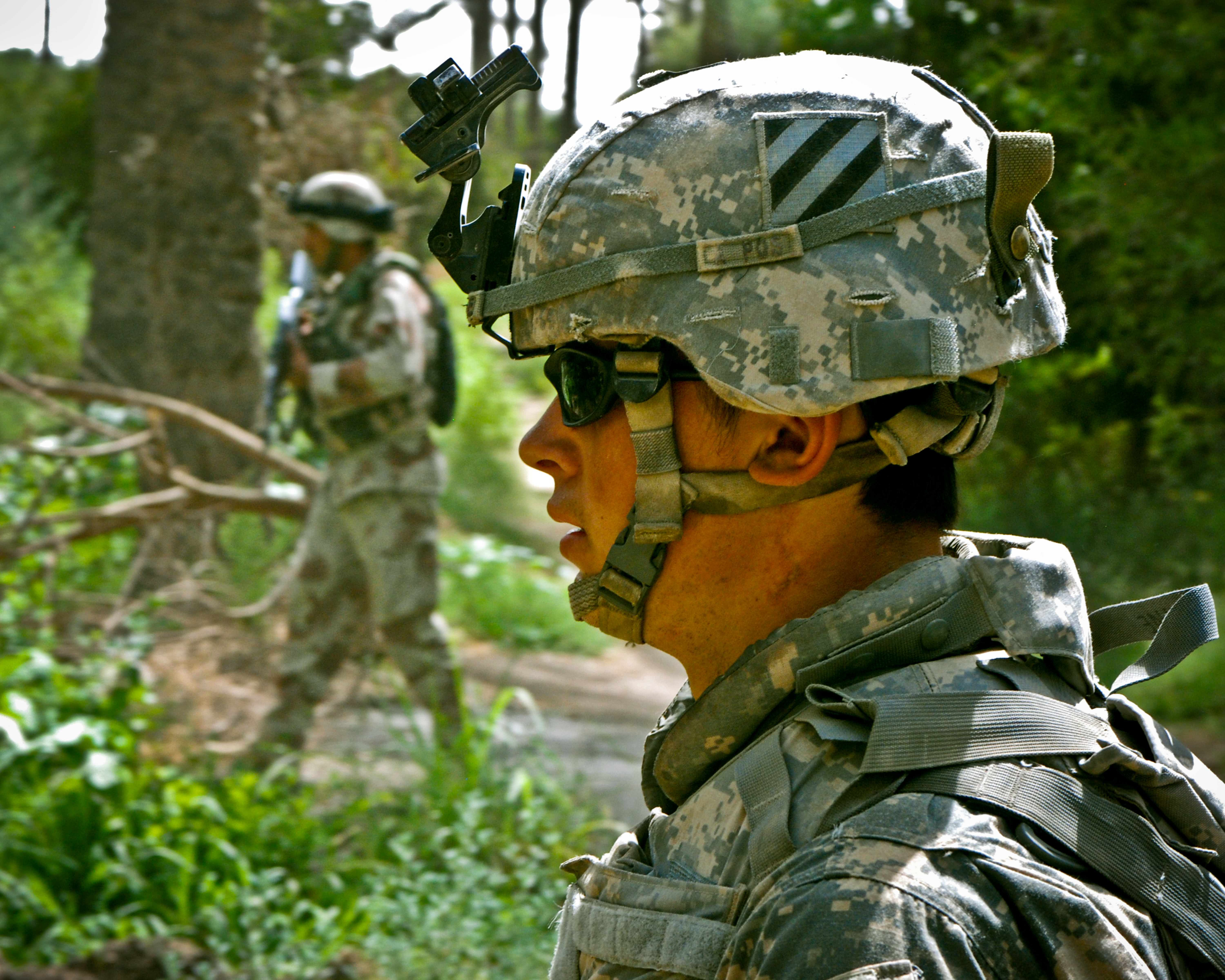 A infantryman from Bravo Company, 1-30 Infantry Regiment, 2nd Brigade Combat Team, 3rd Infantry Division, conducts a joint patrol with soldiers from the 8th Iraqi Army in Arab Jubour June 27, 2007.